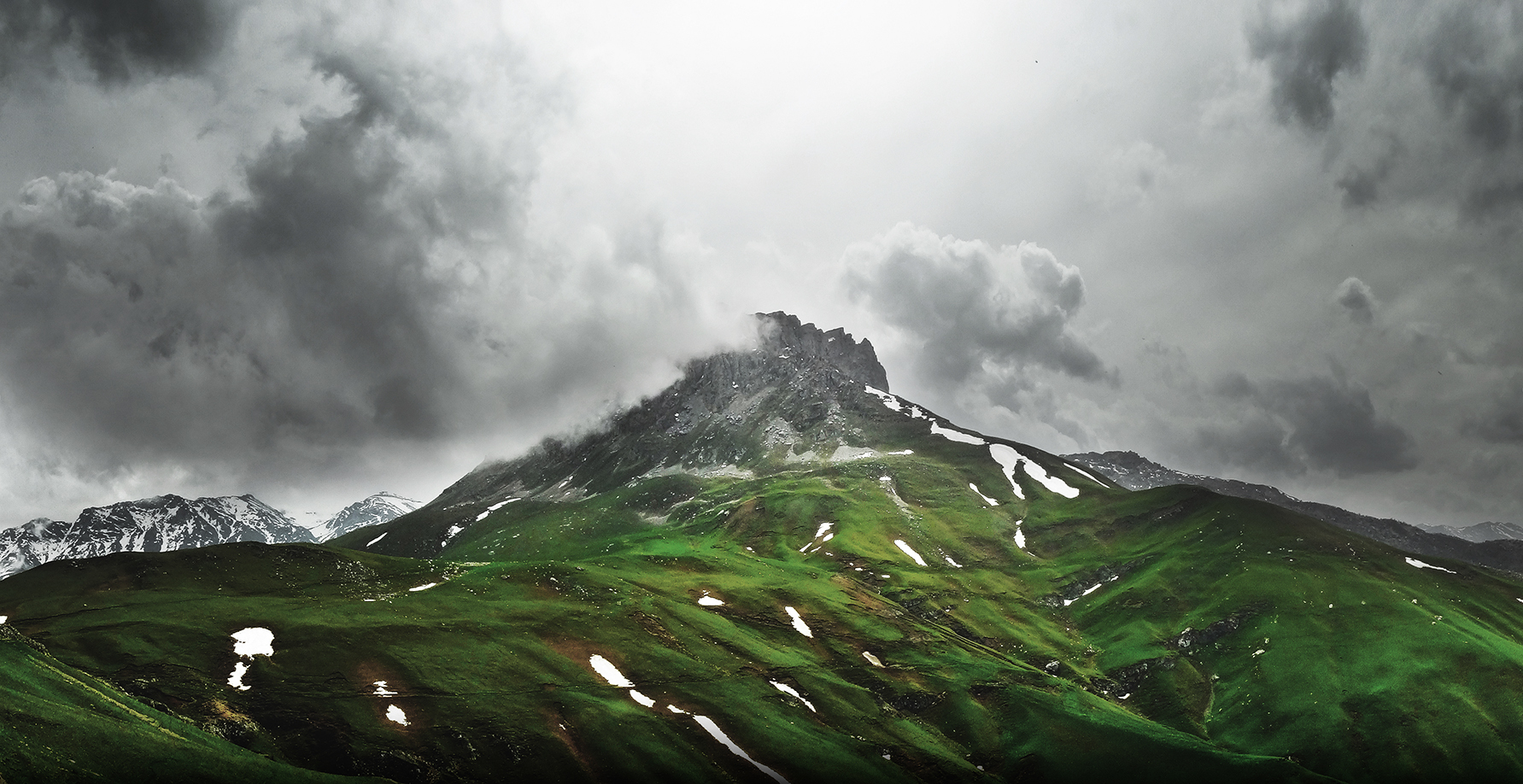 Goygol National Park, Ganja, Azerbaijan